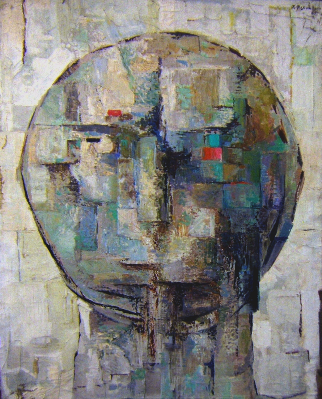 photo of an abstract painting by Zdzislaw Pagowski, depicting Montezuma